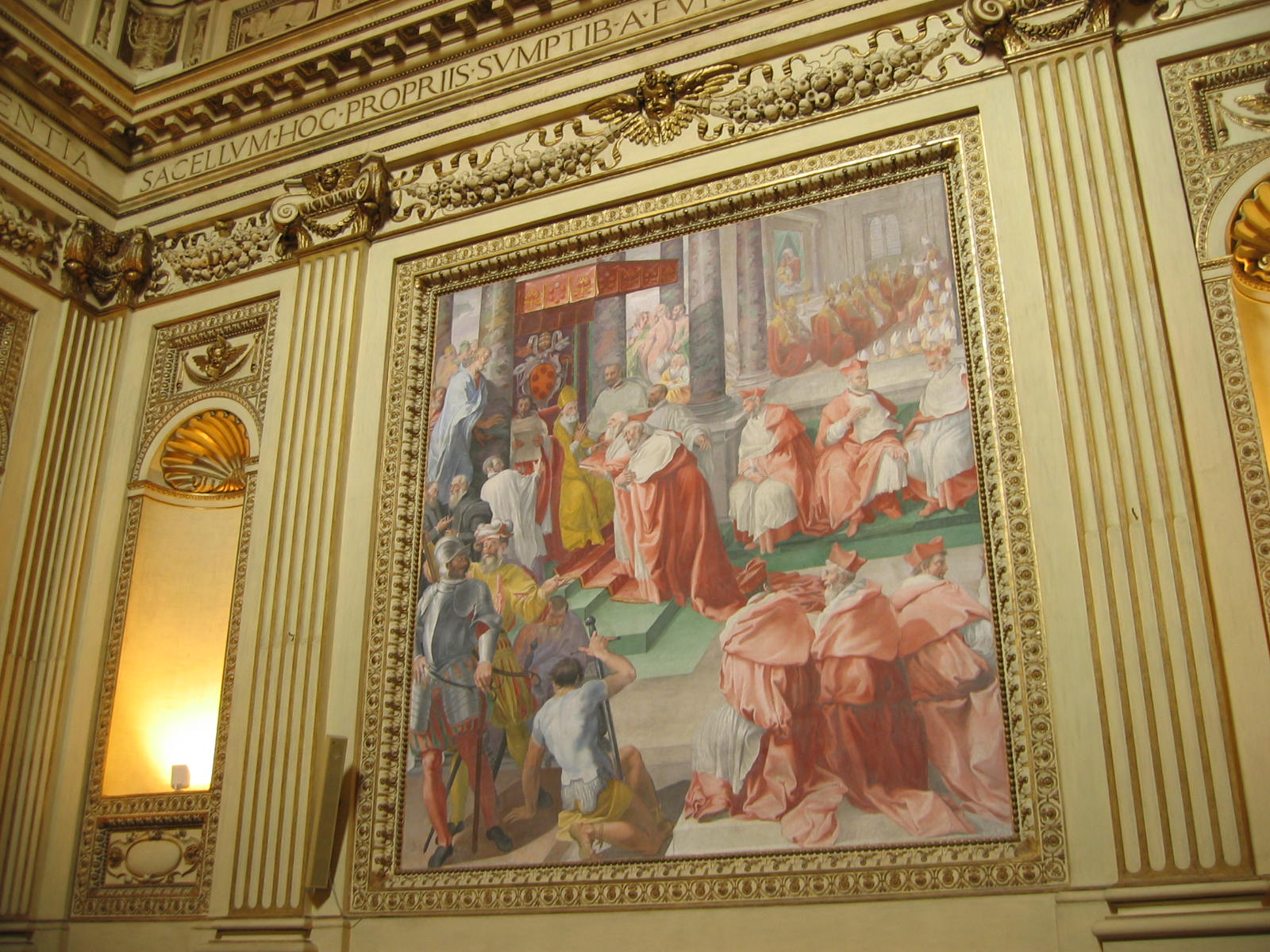 Pasquale Cati – Pope Pius IV promulgates the bull "Benedictus Deus" Fresco (1588), Altemps chapel, Santa Maria in Trastevere, Roma